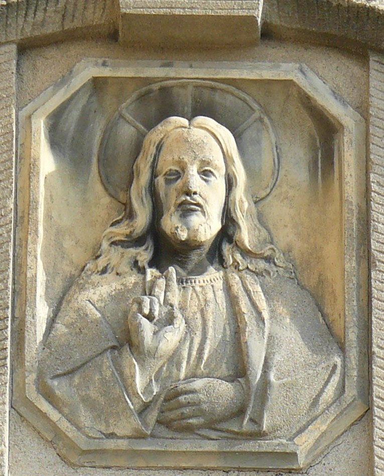 Jesus Plaque, Poznan, Old Church in Warszawskie Distr.